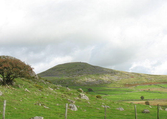 A view across the valley towards Pen-y-gaer.